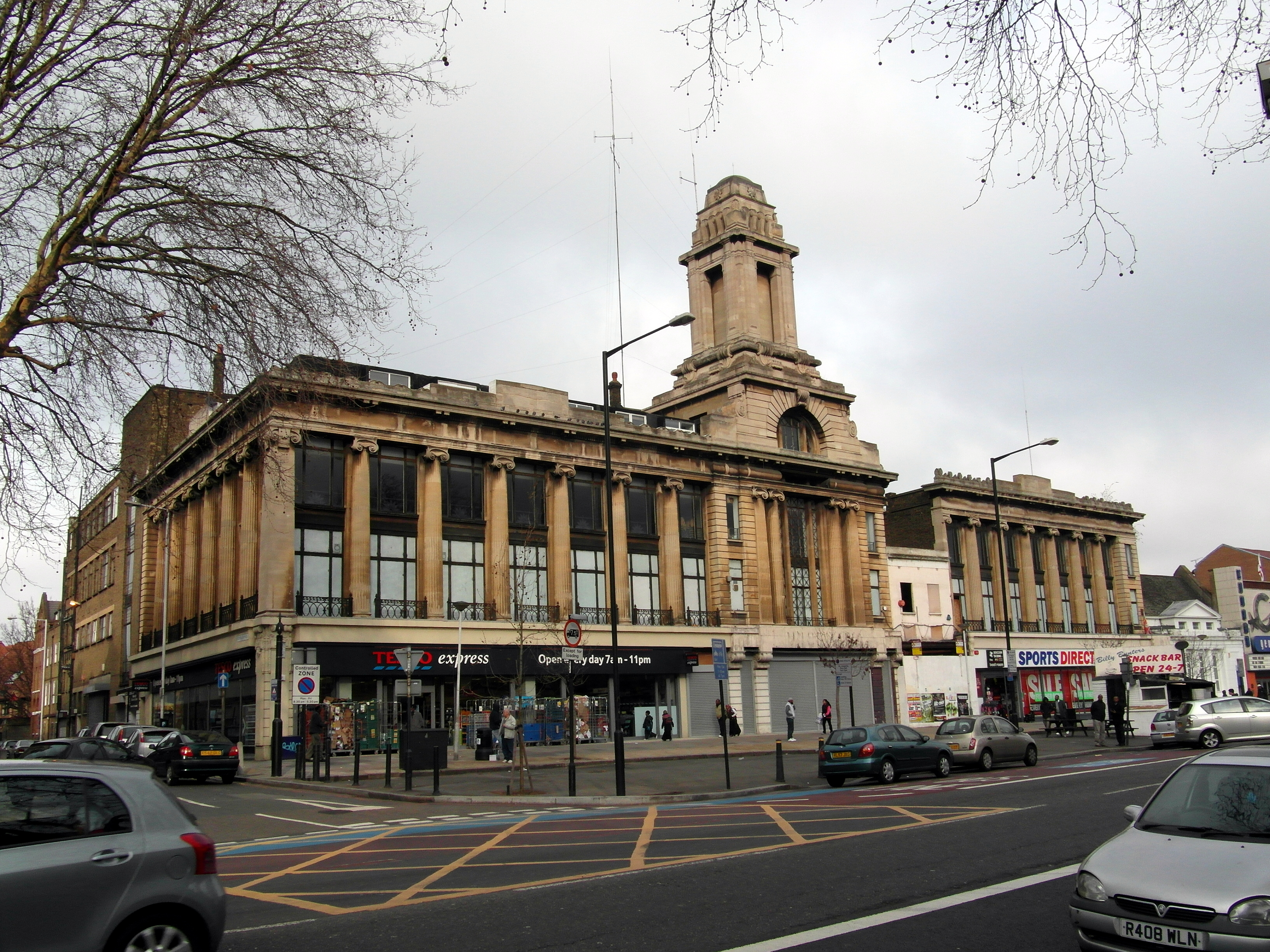 Mile End Road, Mile End. Designed by T J Evans & Co and completed 1925-7. The Spiegelhalter family refused to sell their jeweller's shop and the store was built around it with the two parts forming part of a greater design, anticipating the eventual purchase of the jewellers and its incorporation into the whole. The former jewellers shop is due to finally be demolished to make way for a new atrium entrance to the building.